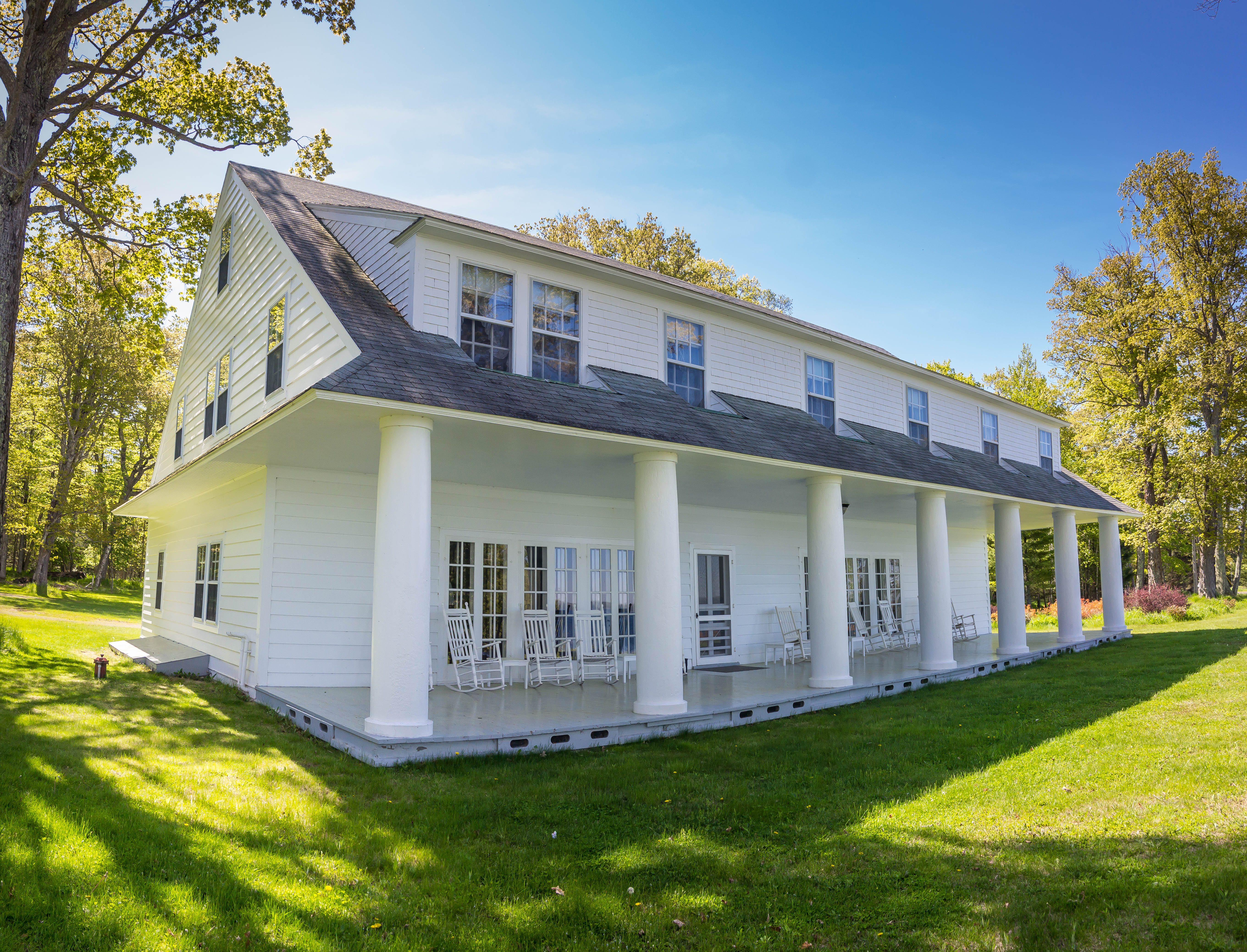 Hebard-Ford Summer Home